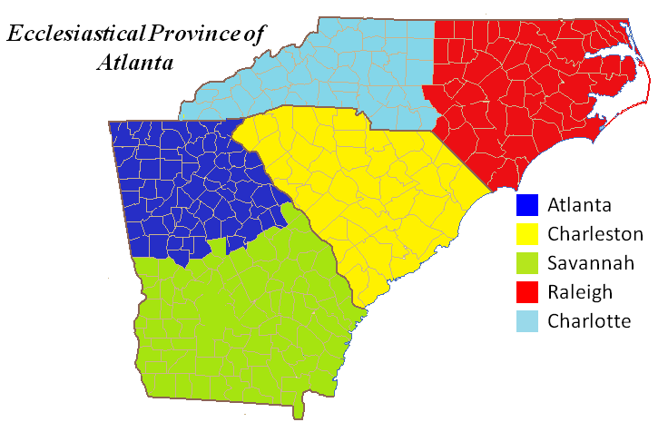 The Ecclesiastical Province of Atlanta encompasses the states of Georgia, South Carolina and North Carolina, USA.